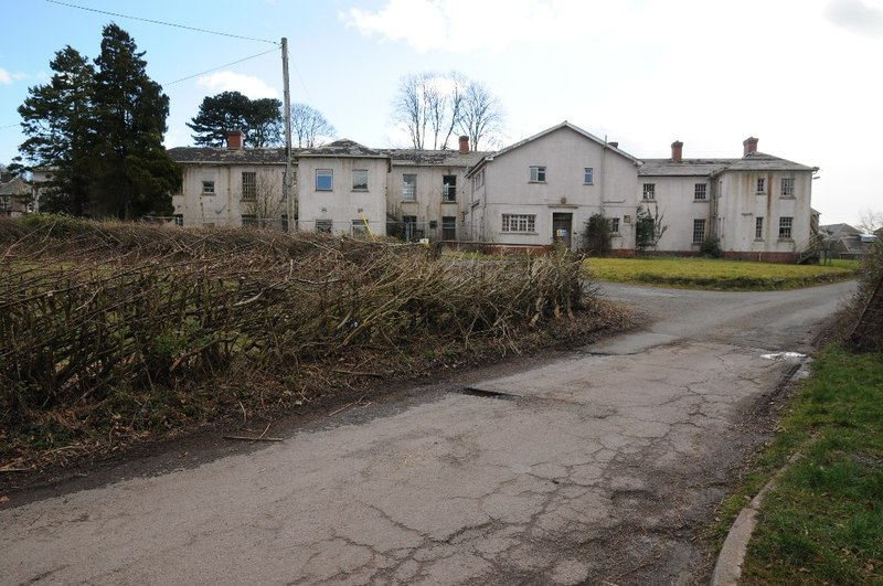 Abandoned former Talgarth Hospital